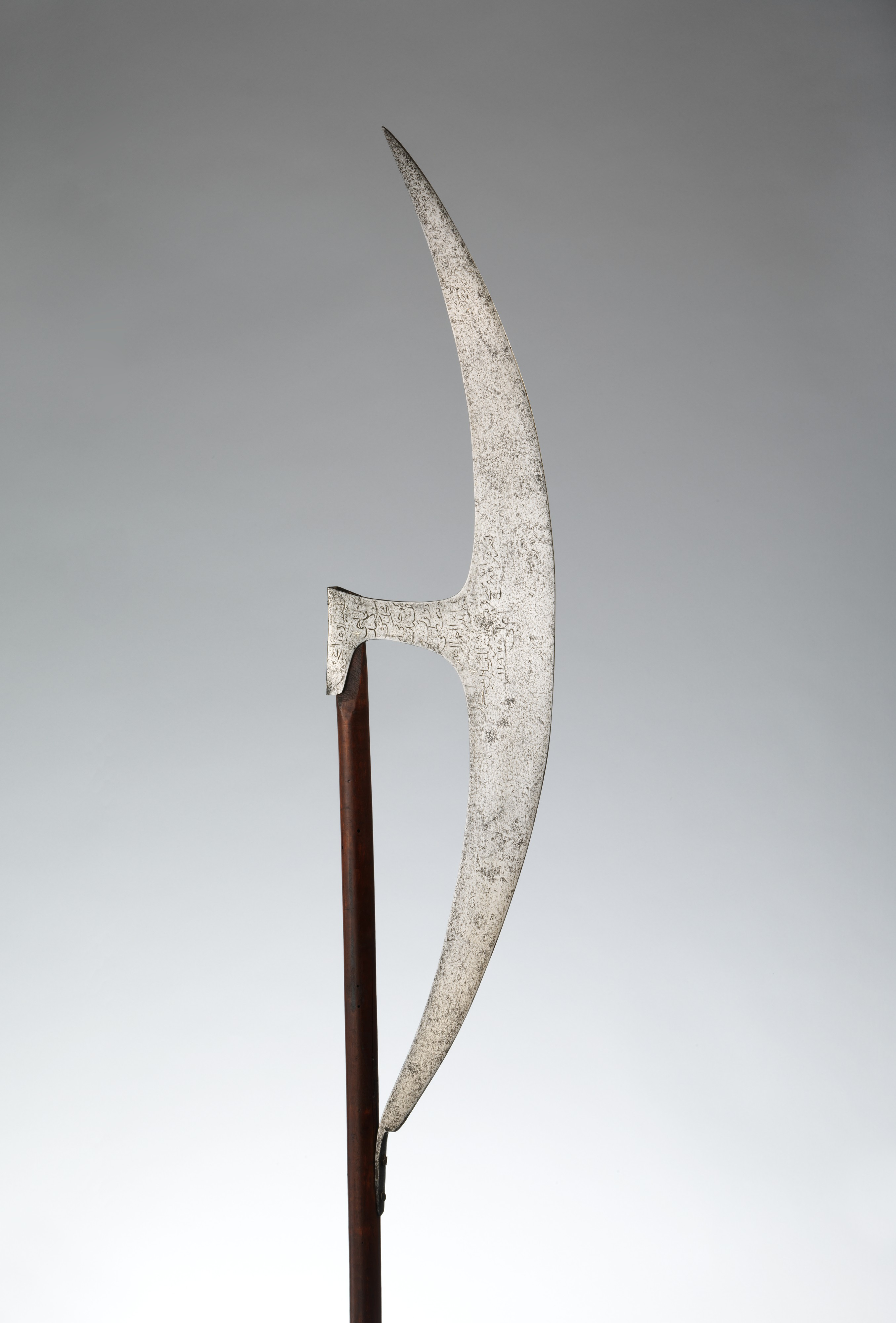 Turkish; Axe (Berdiche); Shafted Weapons